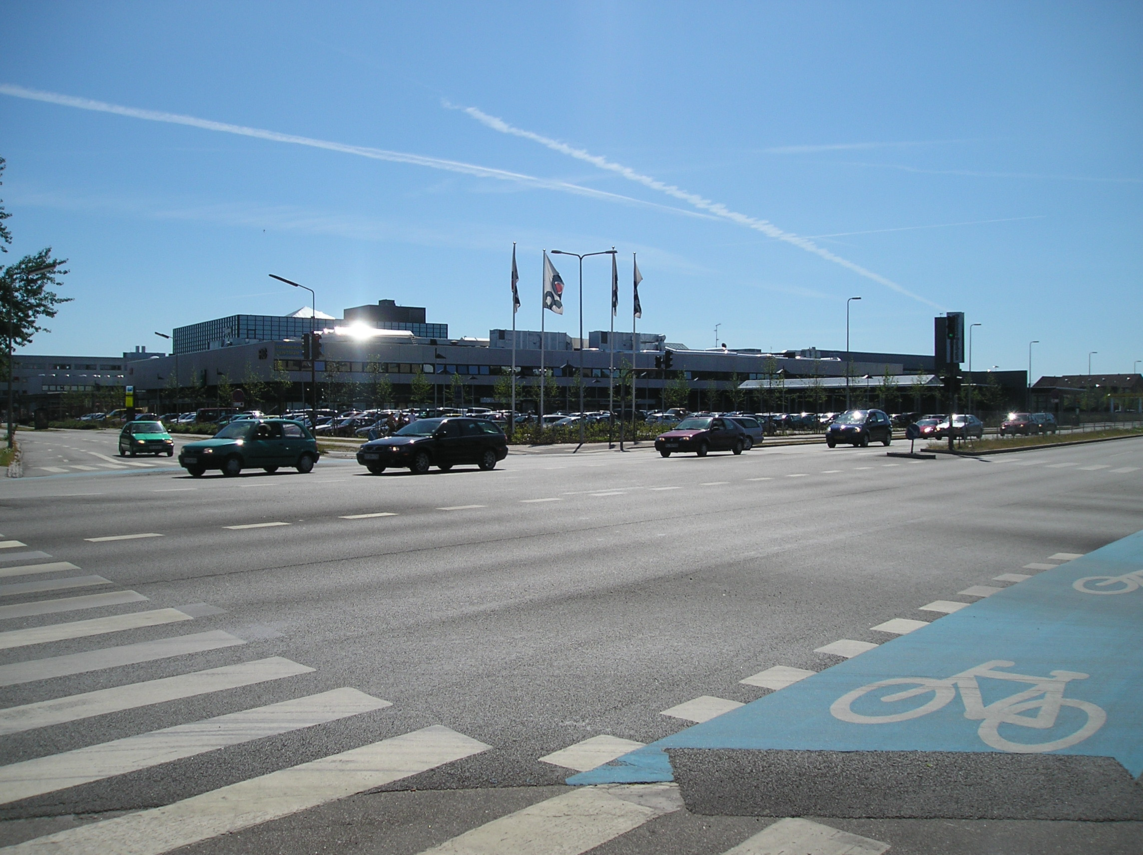 The danish shopping center Rødovre Centrum seen from the cross Tårnvej / Rødovre Parkvej